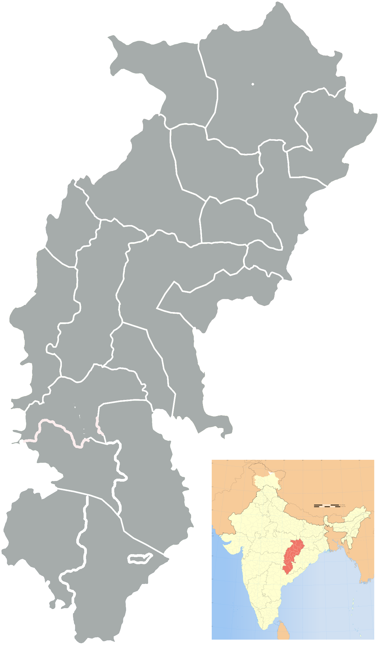 Blank map of Chhatisgarh districts